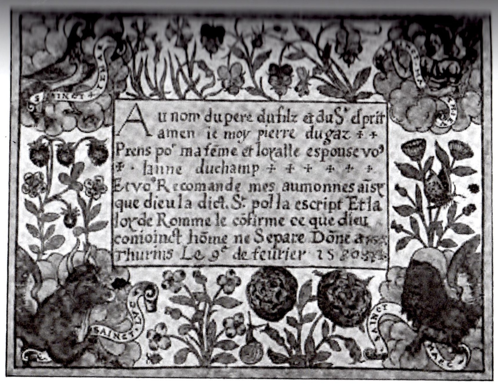 Wedding of Pierre Dugas, Provost of Lyon (France)